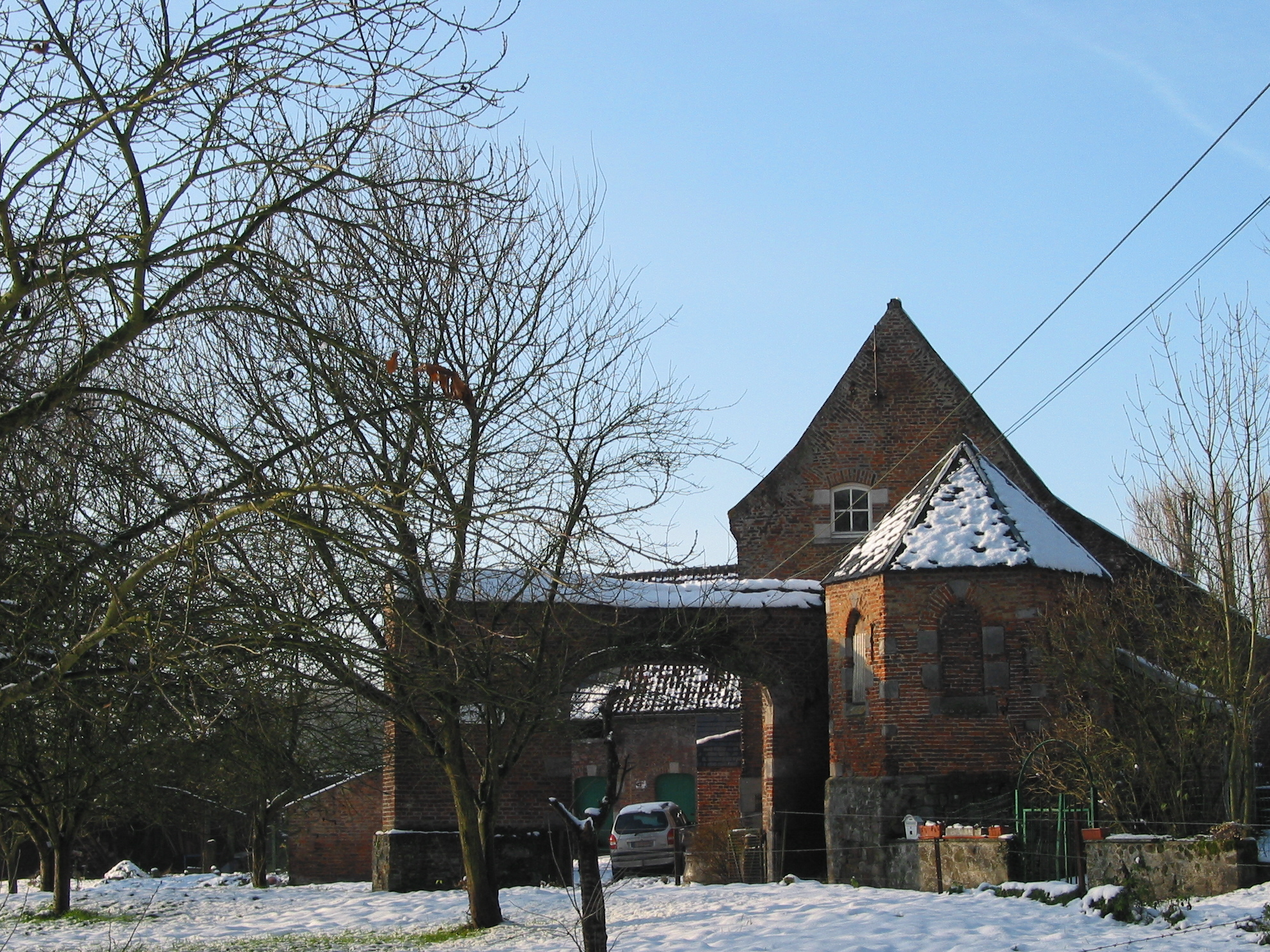 Thieu (Belgium), the Renardise farm (XVIIIth century).